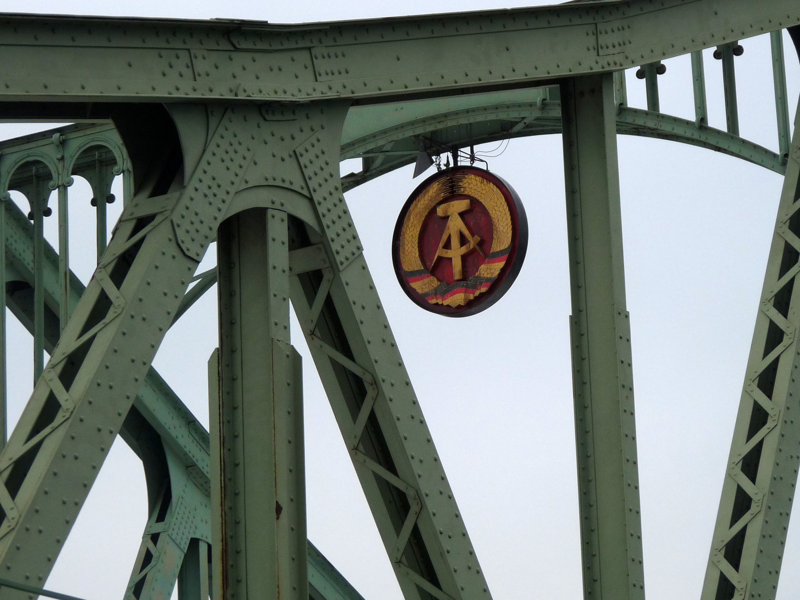 On weekend of november, 28th, until december, 1st, 2014, the Glienicke Bridge between Potsdam and Berlin was closed for any public traffic and was remade according to historical state and situation on february, 10th, 1962, in order to take movie shots for the film now known as Bridge of Spies.